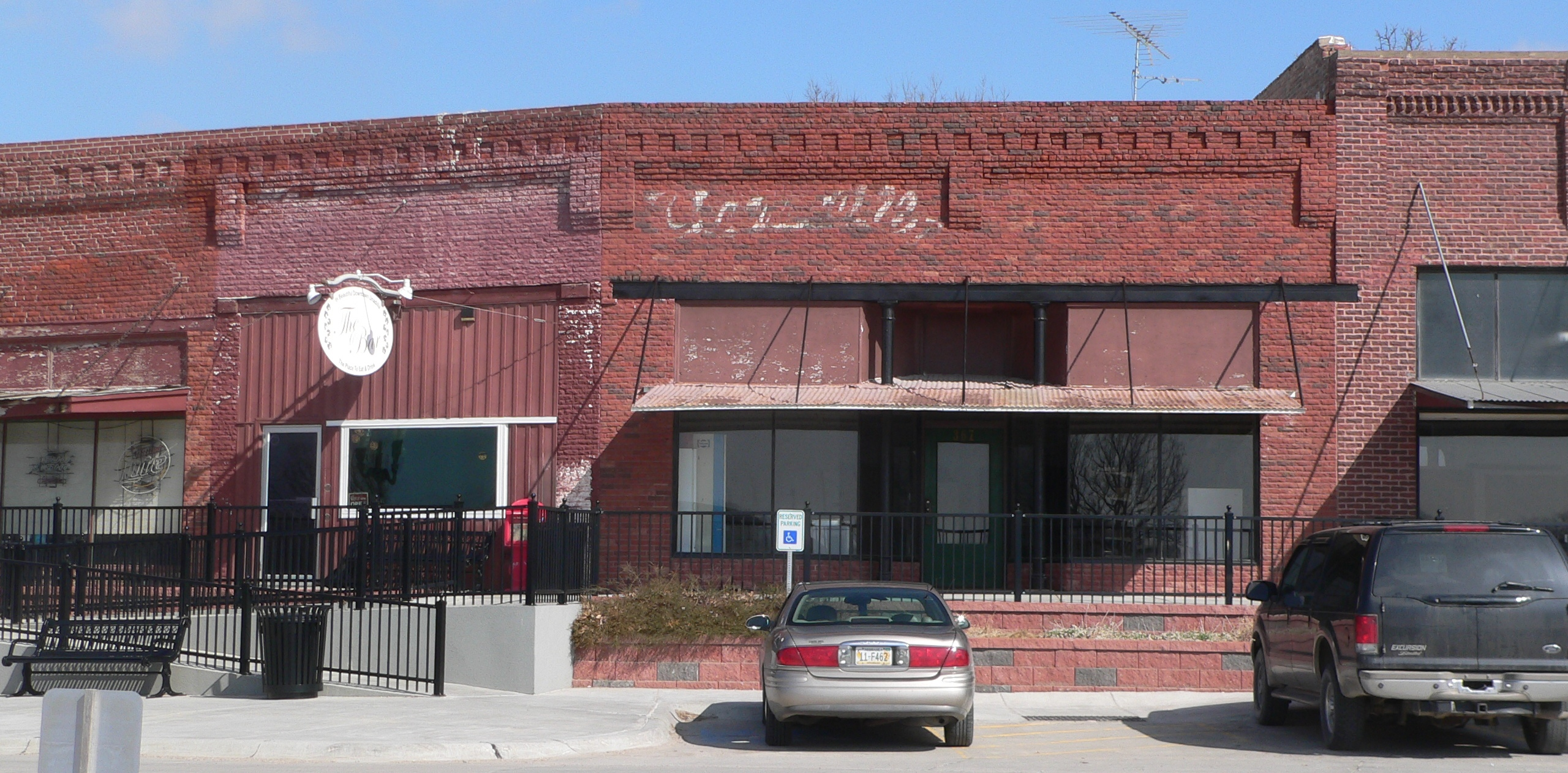 Main Street Historic District, Unadilla, Nebraska: fourth in a series of six photos, running from west to east, from H Street to G Street.